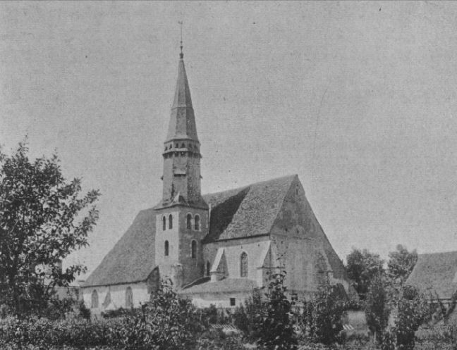 Triguères' Saint Martin church, seen from the south-east. Although this photo was taken prior to 1863, the church is still the same as of 2013. The ground floor and first level of the spire are from the XIth century and of roman style. The church was almost completely destroyed within 100 years (only its spire base and its front door remain of the old church) and was rebuilt in gothic style in the second third of the XIIth century. But the lanceolated shape of the openings in the spire indicate that it was rebuilt again in the XIIIth century, possibly because the second spire was not high enough anymore for the bells to have the proper range (the second church was higher than the first one). The spire's ornaments at the top date from the XVIth century, date of the last major works on the church.